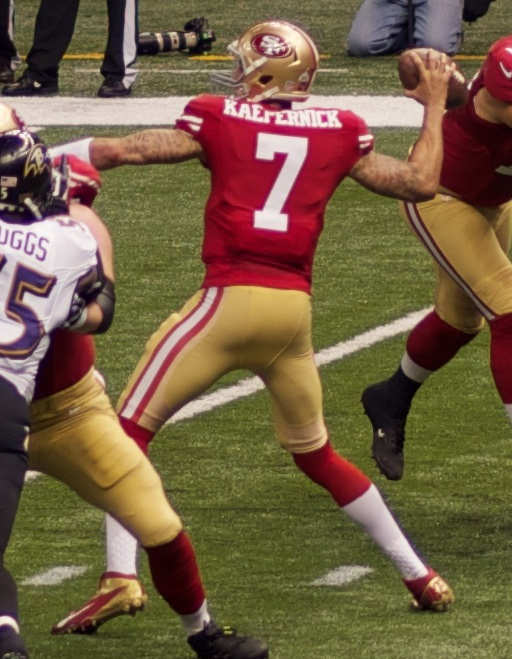 San Francisco 49ers quarterback Colin Kaepernick attempts a pass in Super Bowl XLVII.